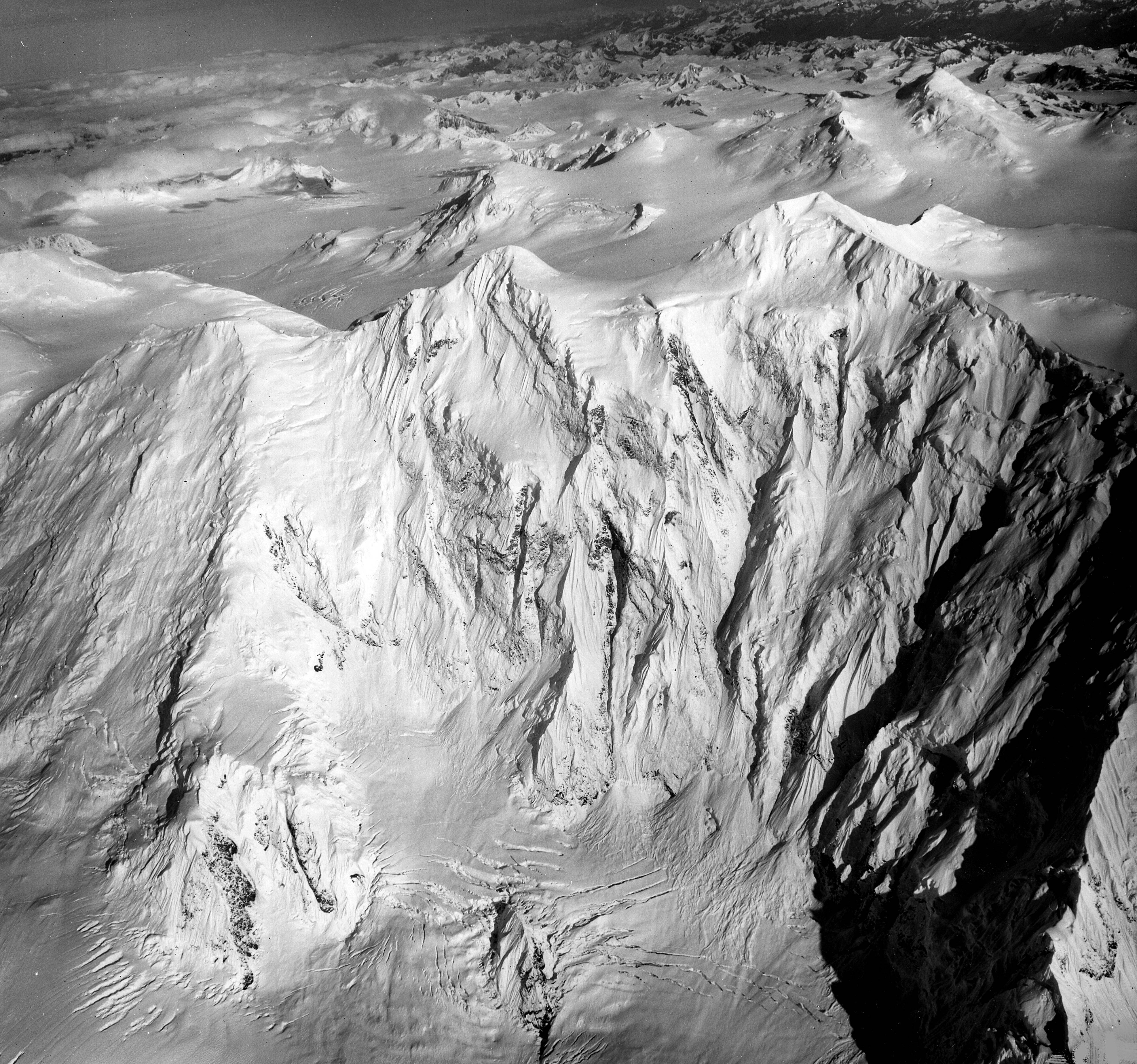 Columbia Glacier, Head, Hanging Glacier, August 24, 1964 Subjects (LCSH): done Keywords: hanging glacier; arête; icefall; crevasse; accumulation area; névé